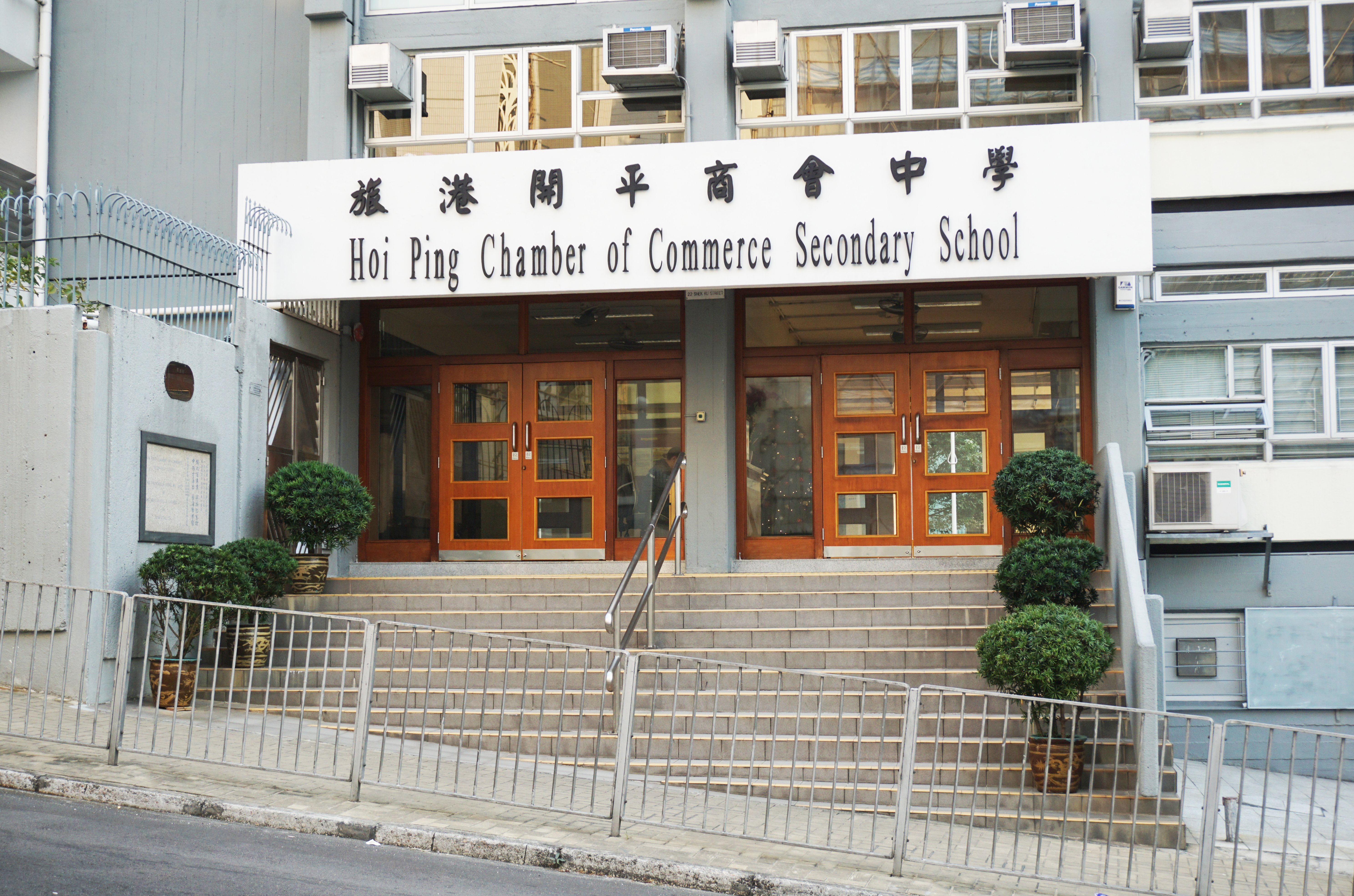 Hoi Ping Chamber of Commerce Secondary School in Ho Man Tin, Hong Kong.